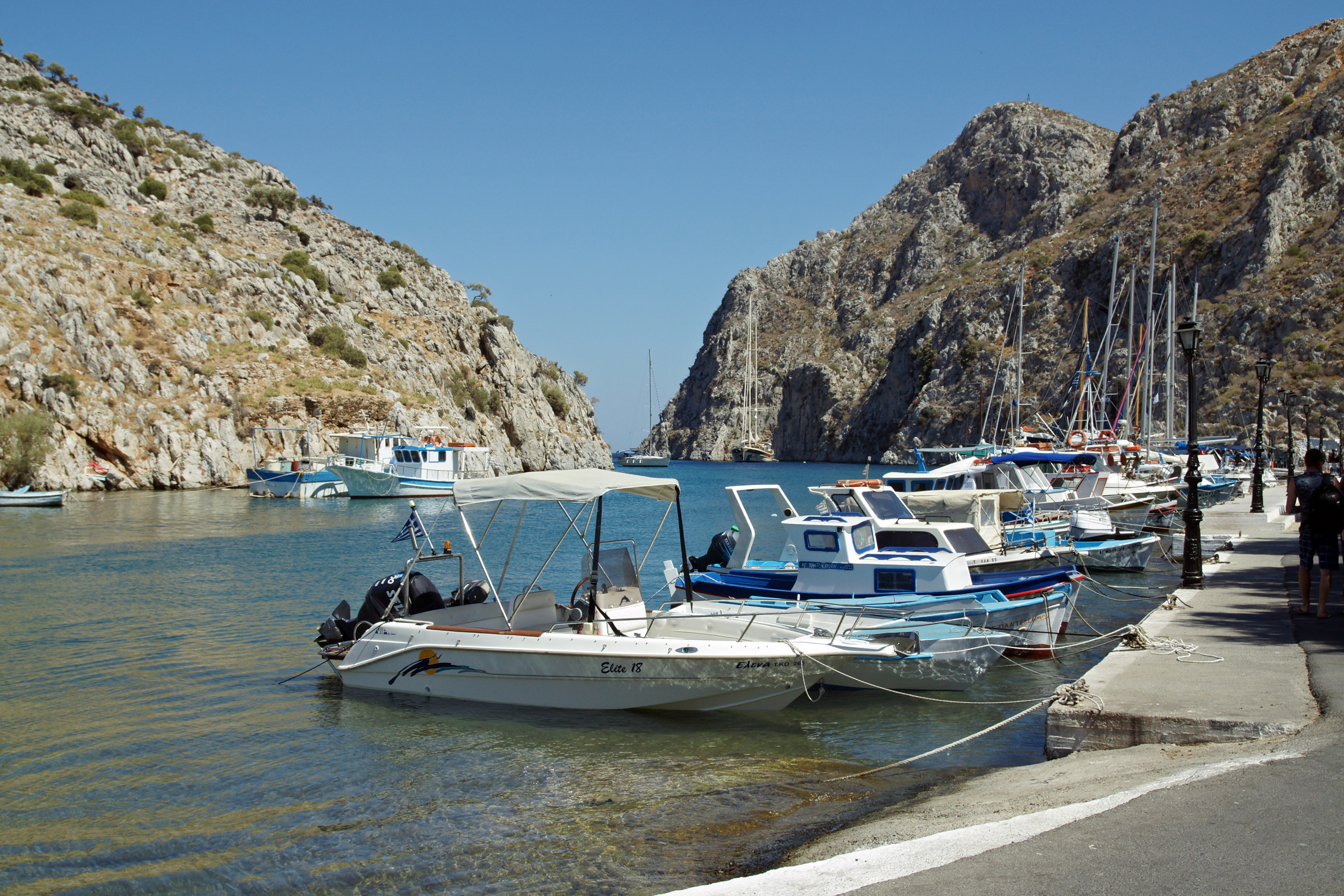 Rina, port of Vathys, Kalymnos